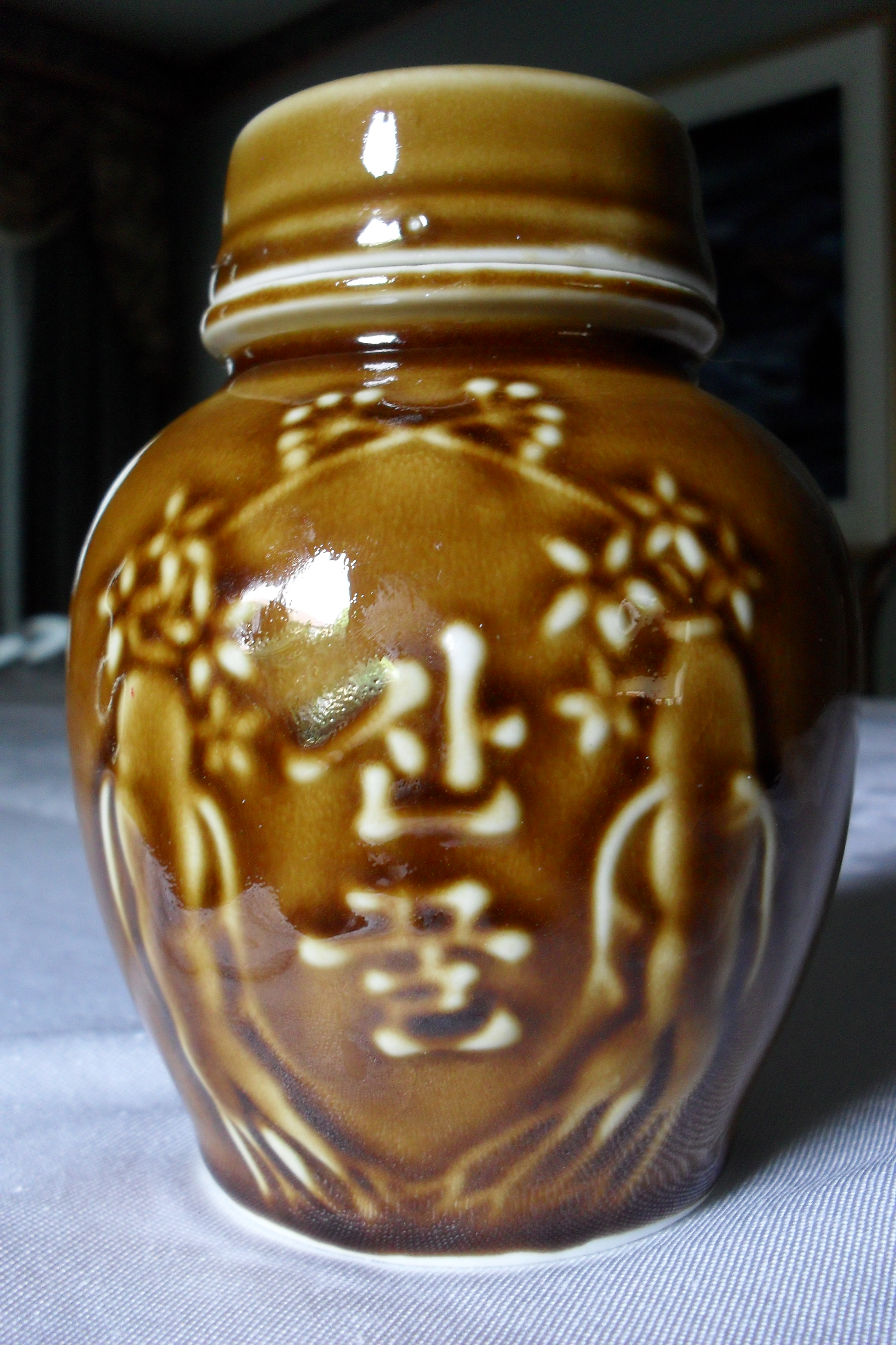 Honey pot from North Korea